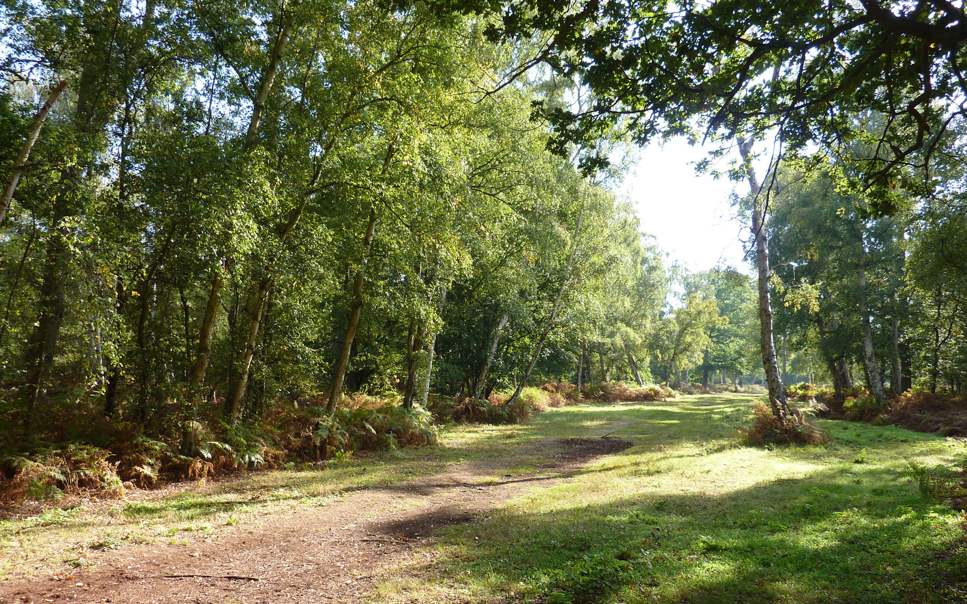 Holme Fen - Silver Birch Woodland